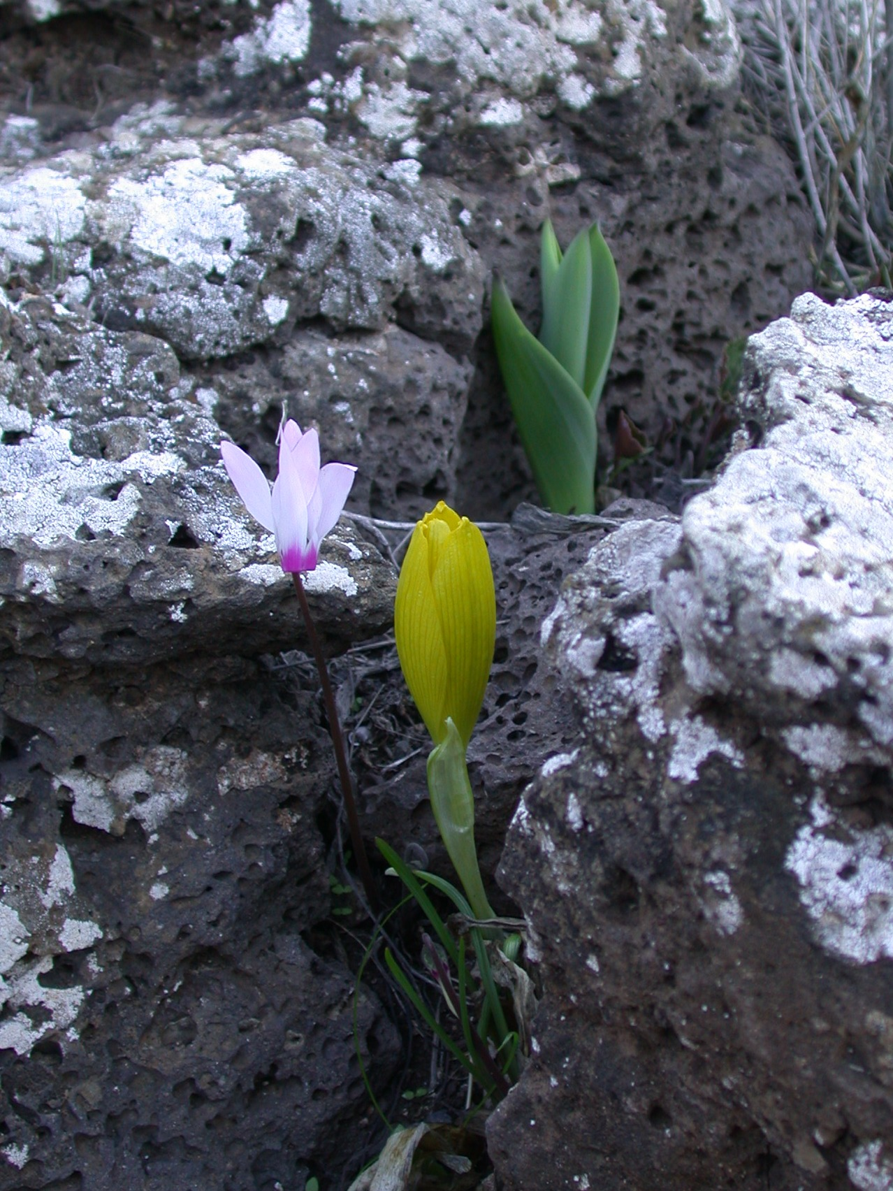 Autumnal geophytes in the basalt rocks of Mevo Chama, Golan Heights (Israel/Syria): Cyclamen persicum blooming before vernation, flower bud of Sternbergia clusiana, and leaf rosette of Urginea maritima.